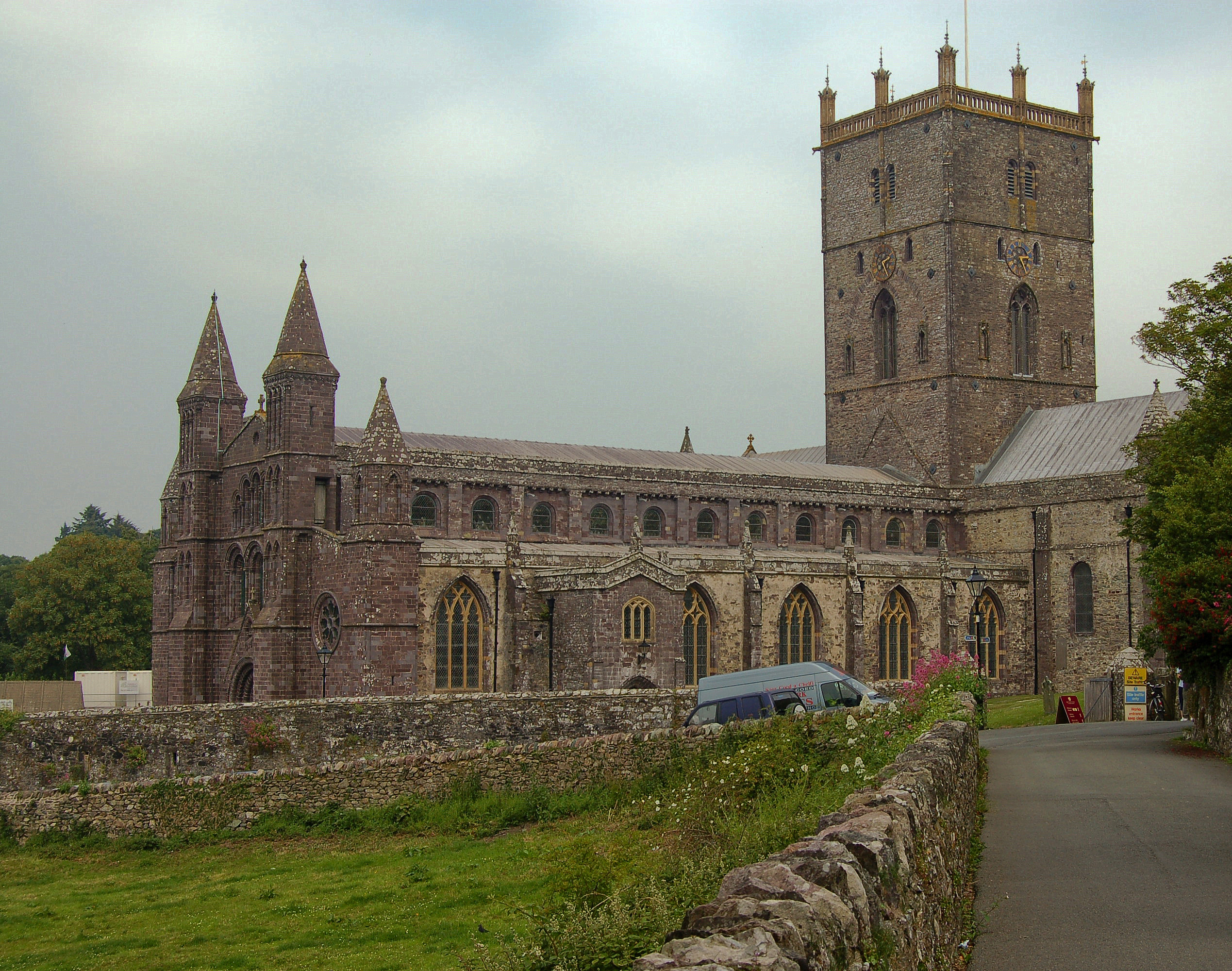 St David's Cathedral in Pembrokeshire, Wales.